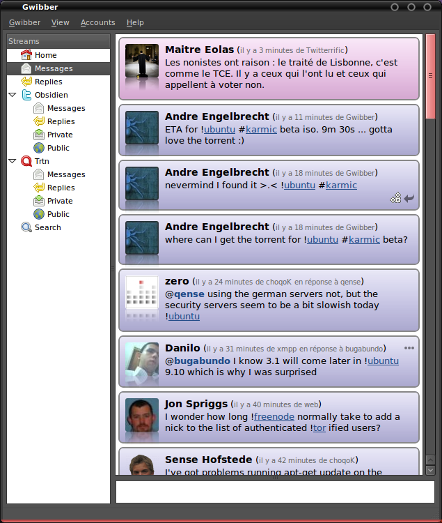 Screenshot of Gwibber 2.0. See egally Gwibber 1.0.